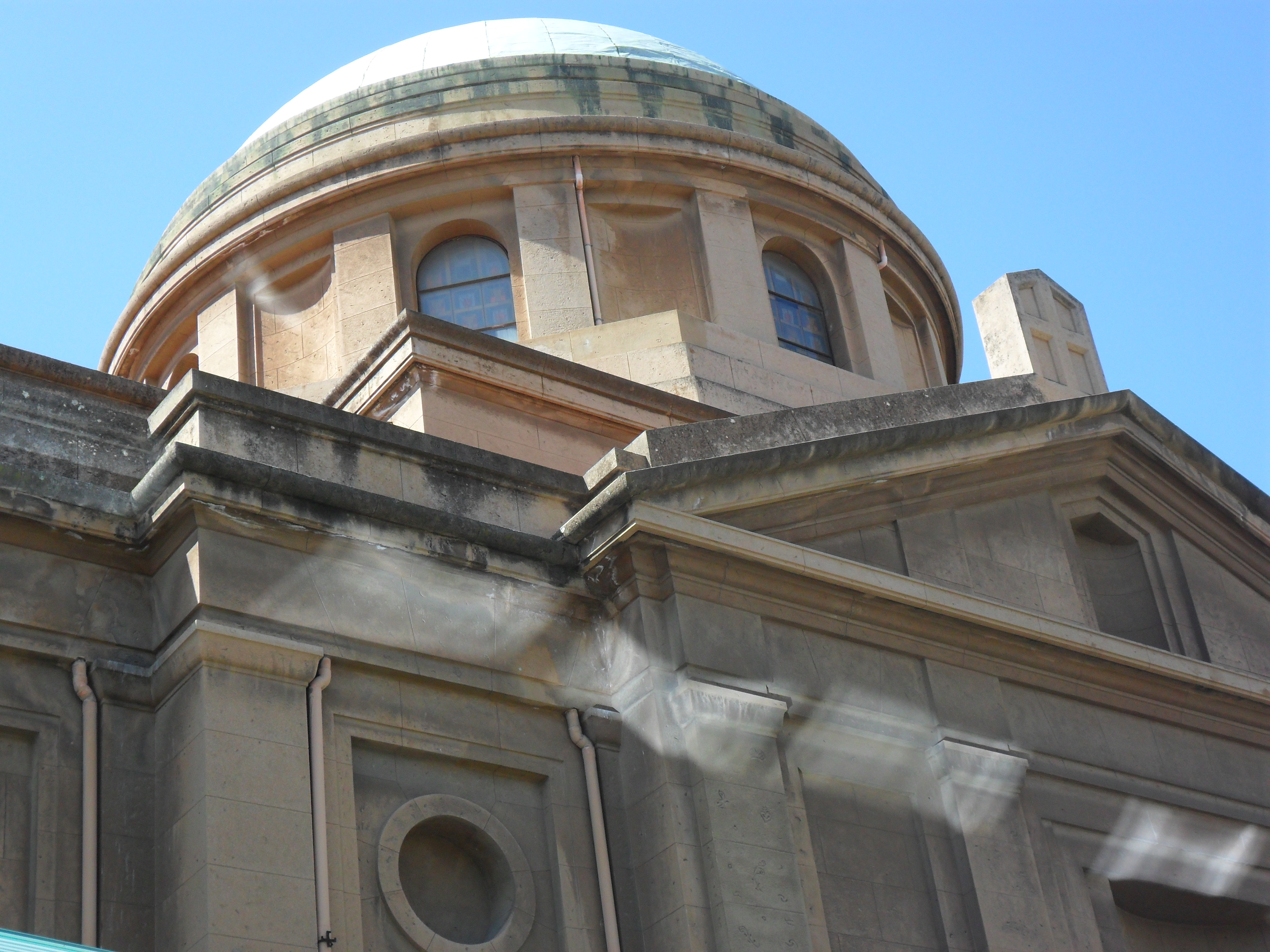 the dome of the Church of St.George